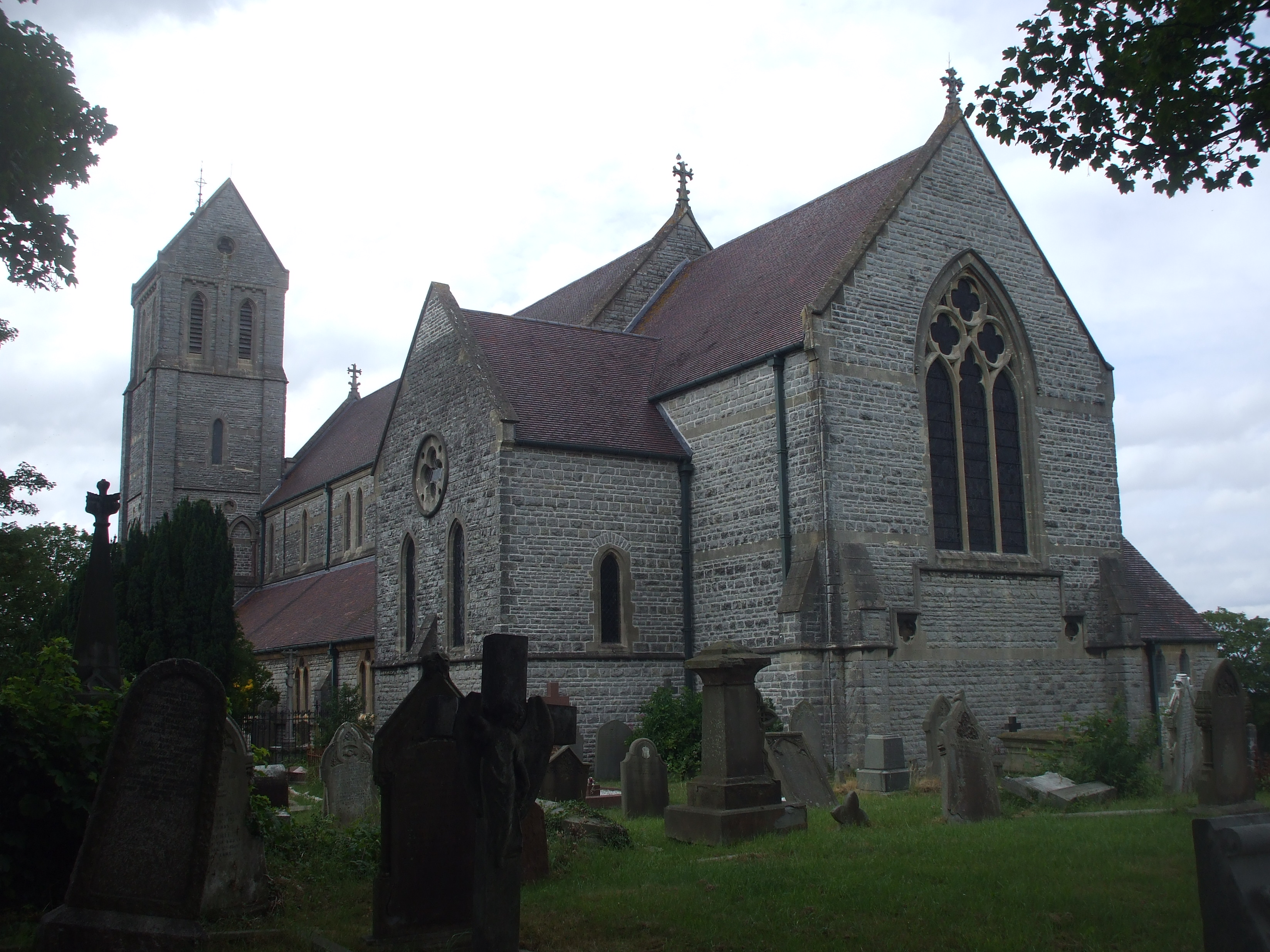 St Augustine's Church, Penarth, Vale of Glamorgan, by architect William Butterfield